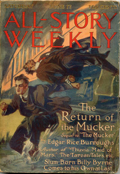 All-Story Weekly, June 17, 1917